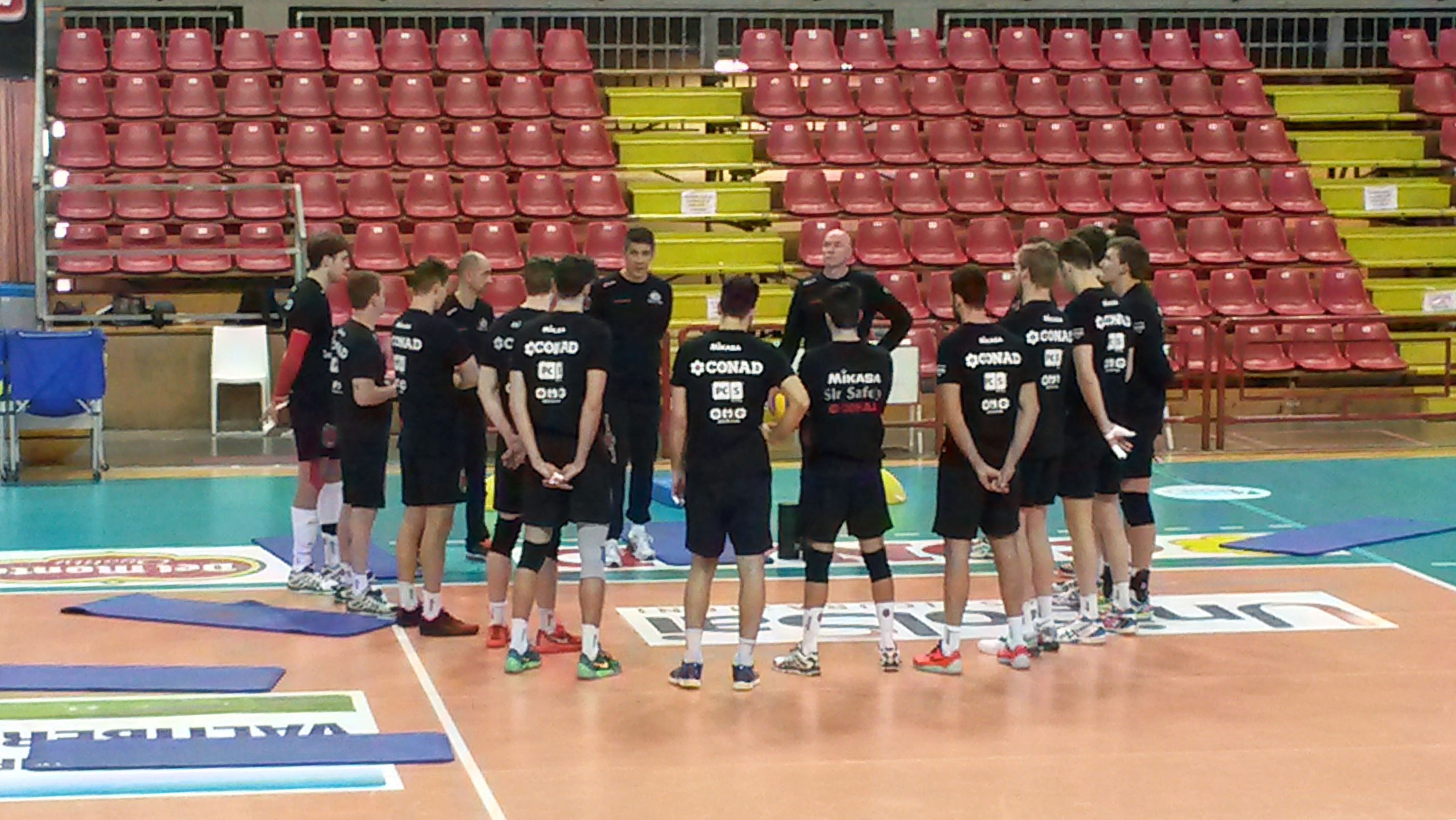 Italian volleyball club Sir Safety Perugia training at PalaEvangelisti, Perugia.